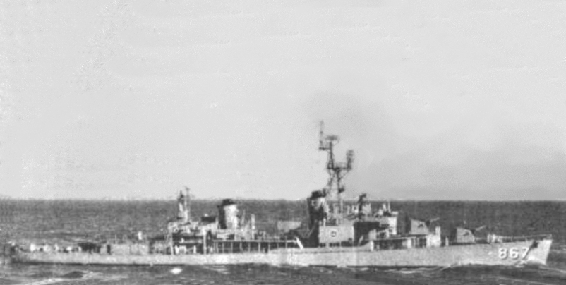 The U.S. Navy destroyer USS Stribling (DD-867), following her FRAM I modernization.